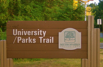 University/Parks Trail sign